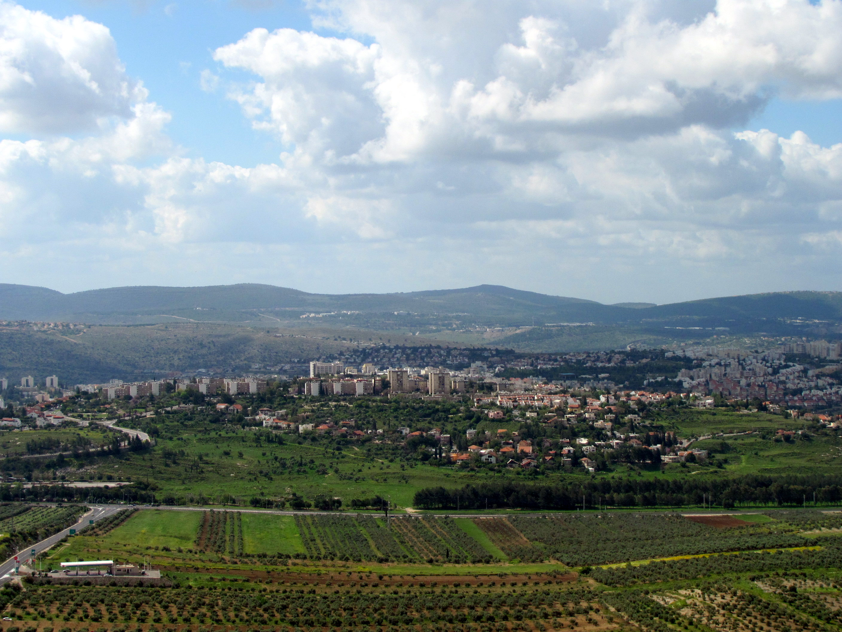 View of Karmiel from the neighborous hills